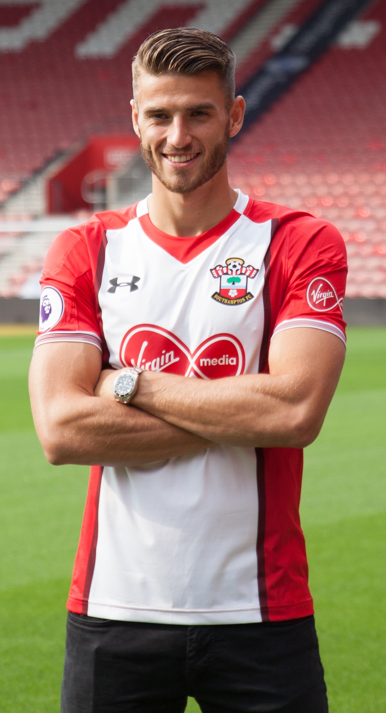 Wesley Hoedt poses after signing for Southampton on 22 August 2017